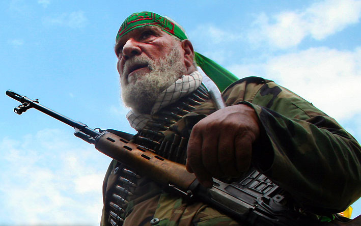 Zabihollah Bakhshizadeh (Haji Bakhshi), Iranian famous soldier of Iran-Iraq War and a member of IRGC.